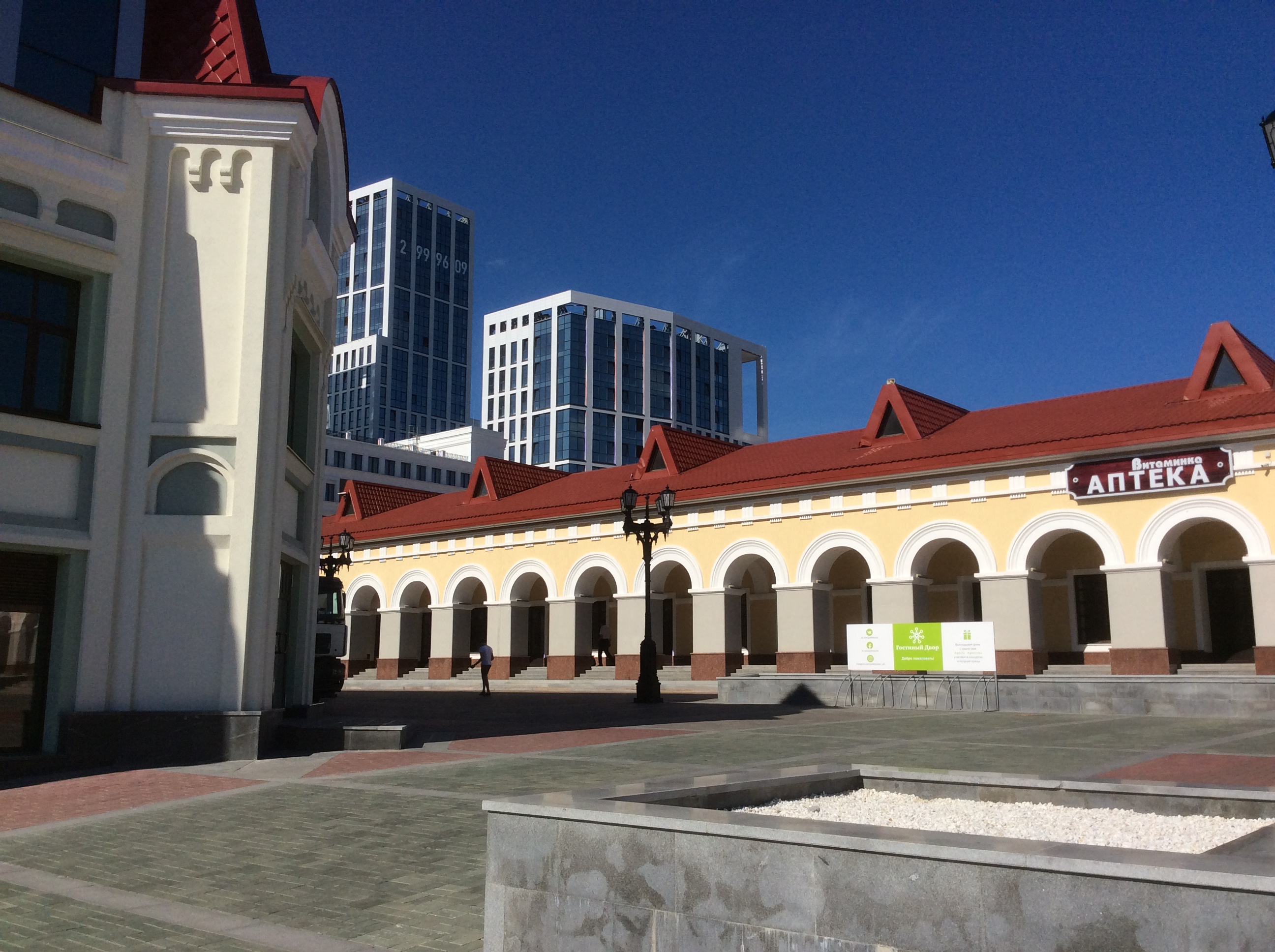 Gostiny dvor in Ufa